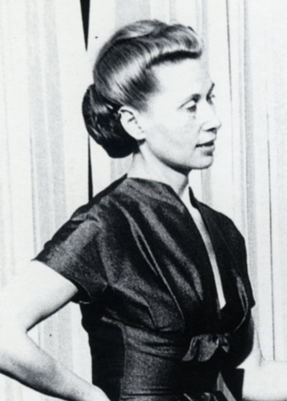 Lola Beer in her Studio on Yarkon Street in Tel Aviv-Yaffo